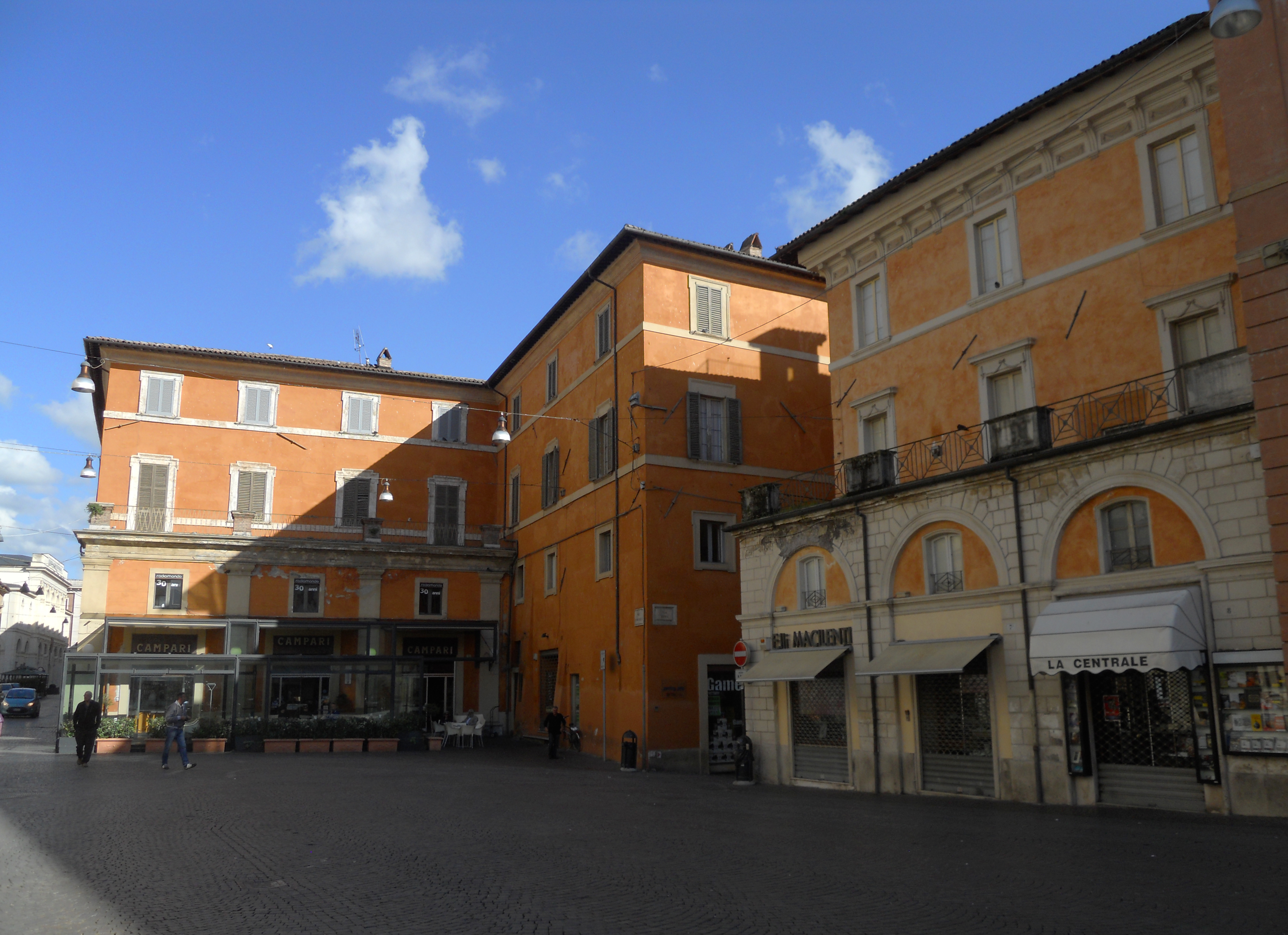 Vittorio Emanuele II square, section in front of Palazzo Comunale with the entrance of Via Roma - Rieti, Italy